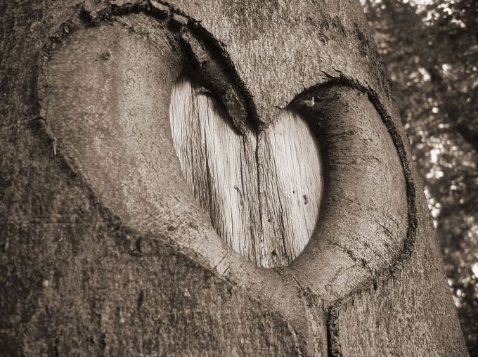 Nature heart